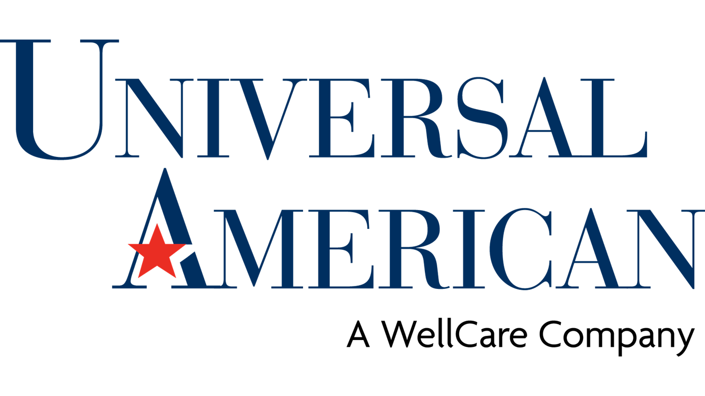 UAM logo post WellCare acquisition